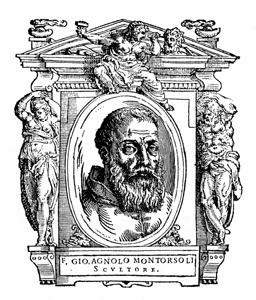 Illustratio from "Le Vite" by Giorgio Vasari, edition of 1568. For the artist portrayed see filename